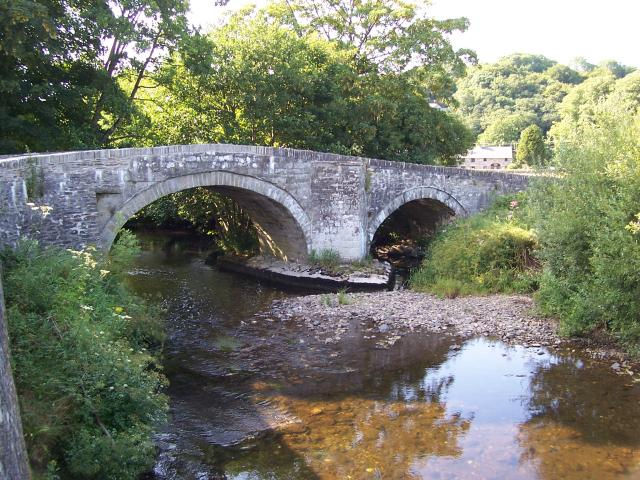 Bridge at Nevern. Arched Bridge over the River Nyfer at Nevern.